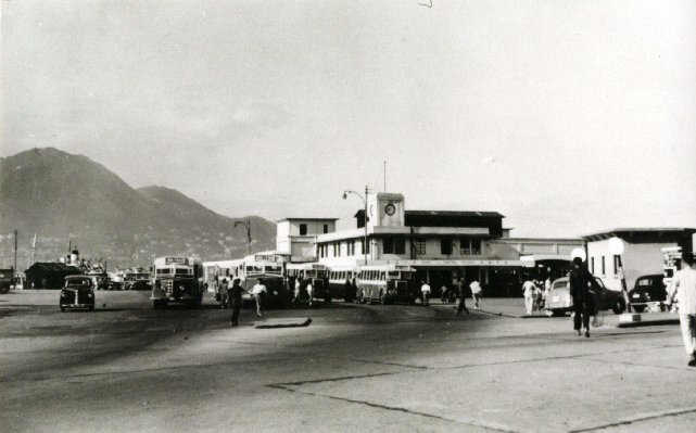 approach to Jordan Road vehicular-ferry pier (E.1), looking southwest